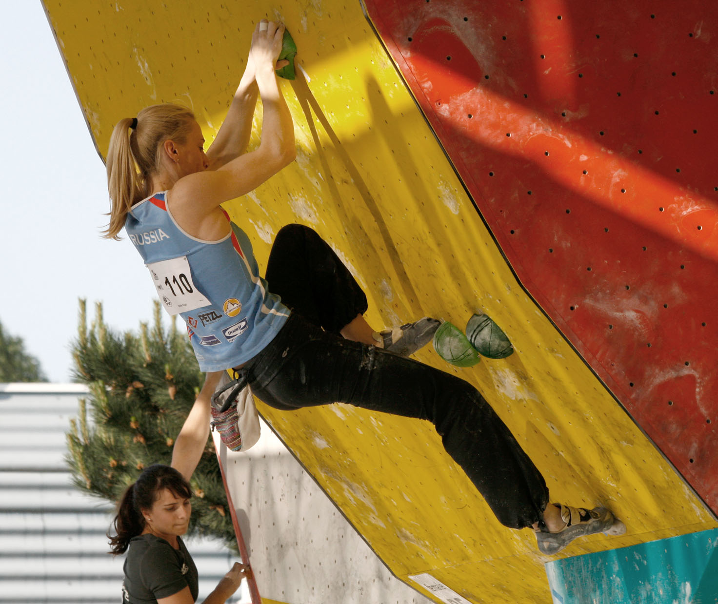 Olga Bibik (110) and Maud Ansade during qualifications at the IFSC Boulder Worldcup Vienna 2010.